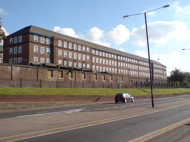 Barrack Block, Kitchener Barracks, Chatham Dock Road is in the foreground. The tops of some army trucks are just visible over the wall.